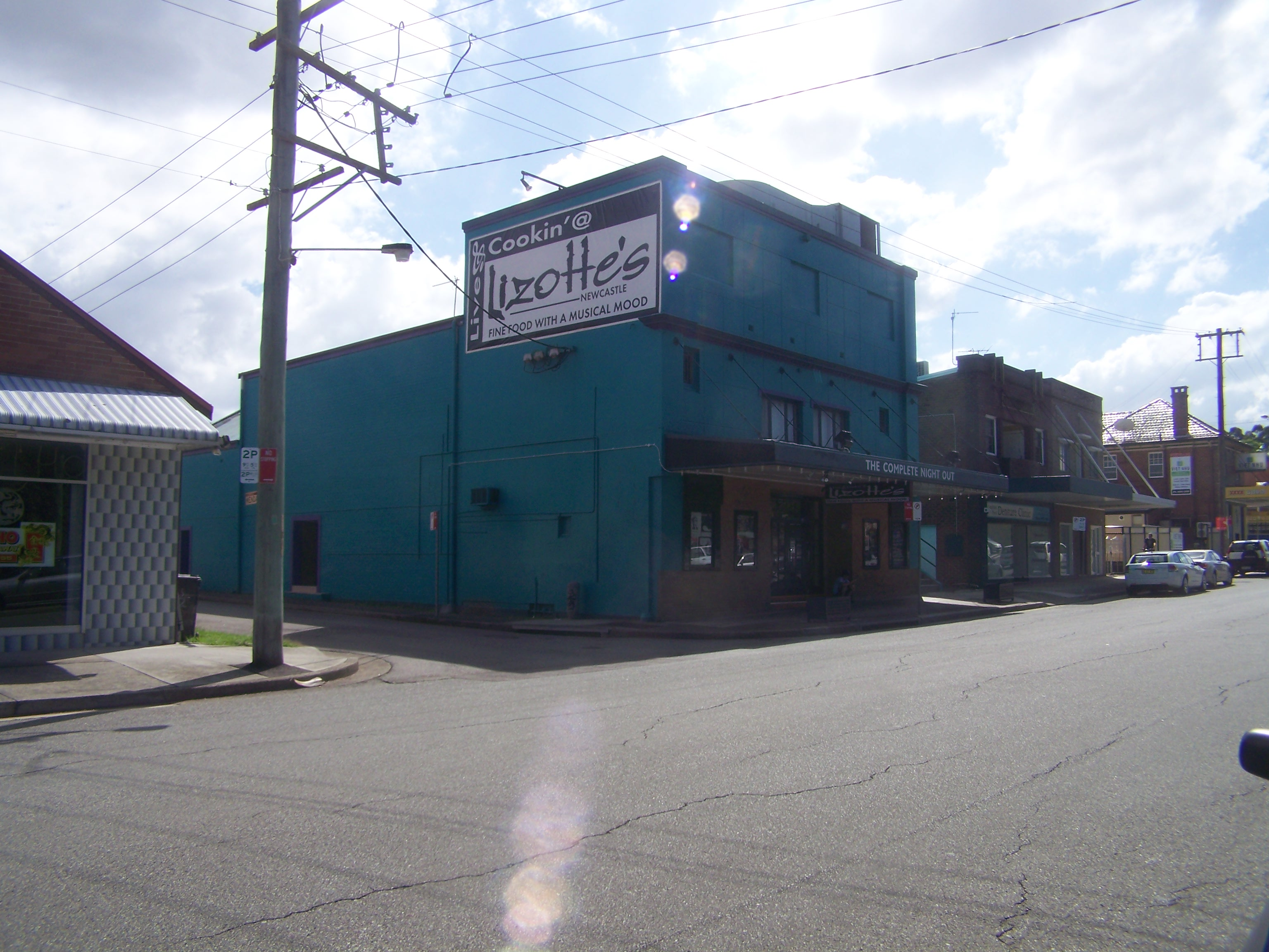 Former King's Theatre now Lizottes, Lambton.